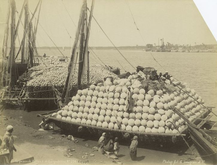 Digital ID: 88418. G. Lekegian & Cie. -- Photographer. 1860s-1920s Source: [Photographs and prints of Egypt and Syria.] (more info) Repository: The New York Public Library. Photography Collection, Miriam and Ira D. Wallach Division of Art, Prints and Photographs. See more information about this image and others at NYPL Digital Gallery. Persistent URL: Rights Info: No known copyright restrictions; may be subject to third party rights (for more information, click here)